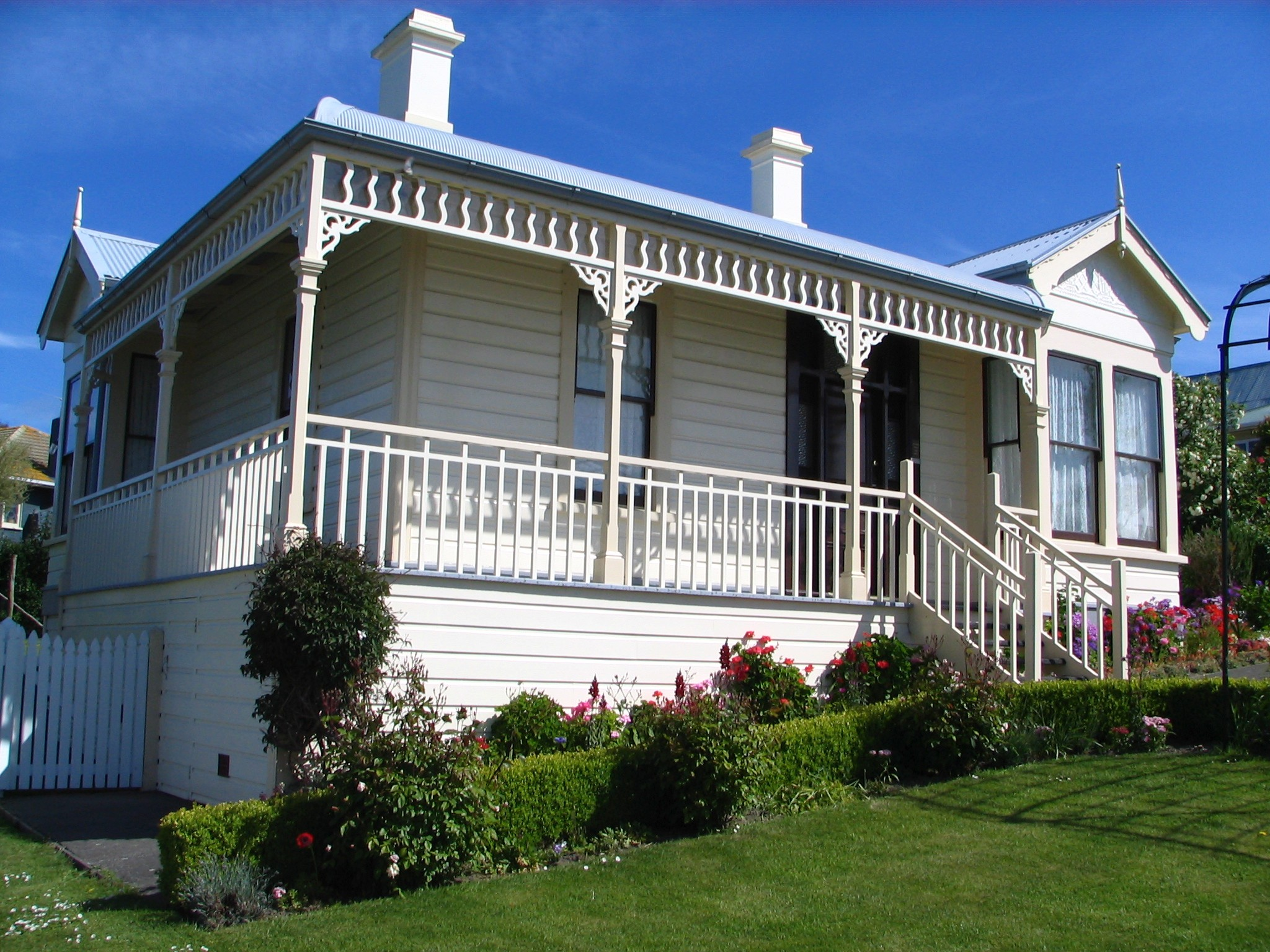 Fletcher House in Broad Bay, Dunedin, New Zealand. The first house built by James Fletcher. New Zealand Historic Places Trust Register number 5230